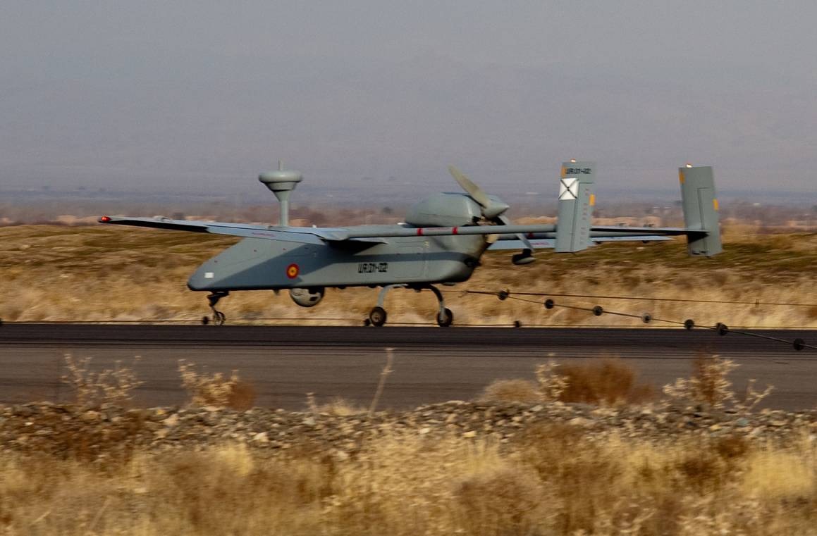 Armadillo catched! At the arresting gear in the runway. Landing finish!!